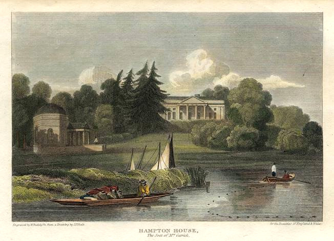 "Hampton House, the seat of Mr Garrick". Copper-tinted engraving.